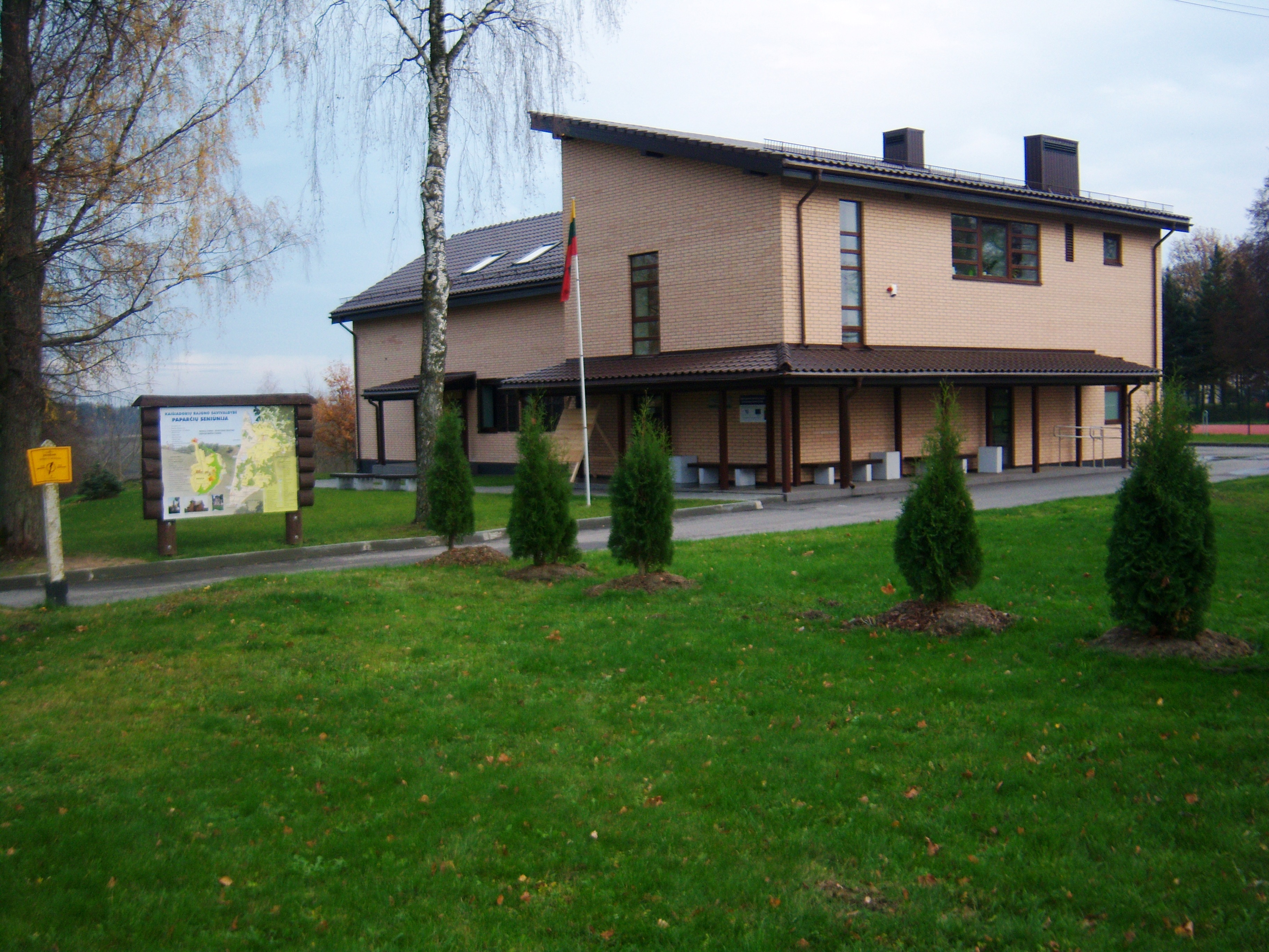 Eldership, Paparčiai, Kaišiadorys District, Lithuania